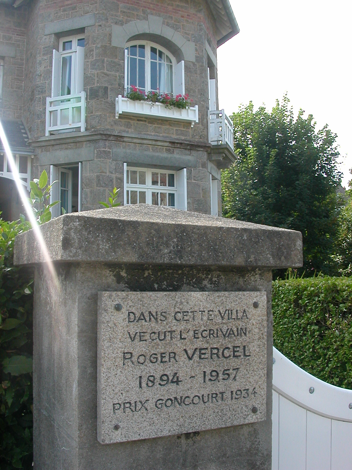 Plaque on the house of the writer Roger Vercel in Dinard